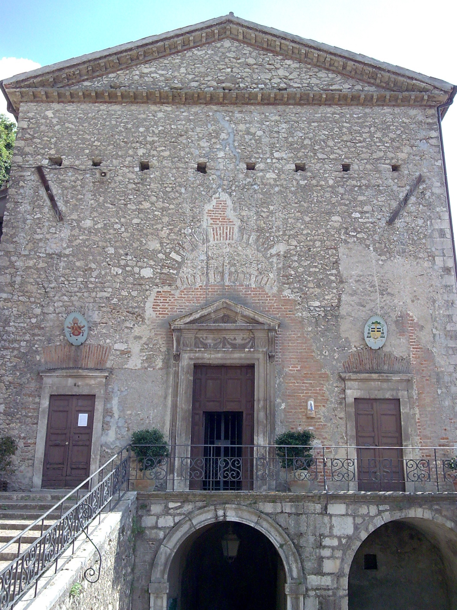 Church Maria Santissima della Visitazione in Cervara di Roma, in the Lazio region